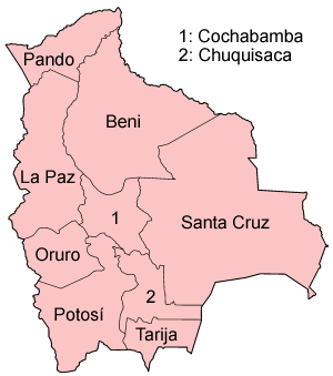 Map of the departments of Bolivia, named in Spanish (local language), names equal to English. The individual maps are: Beni Chuquisaca Cochabamba La Paz Oruro Pando Potosí Santa Cruz Tarija